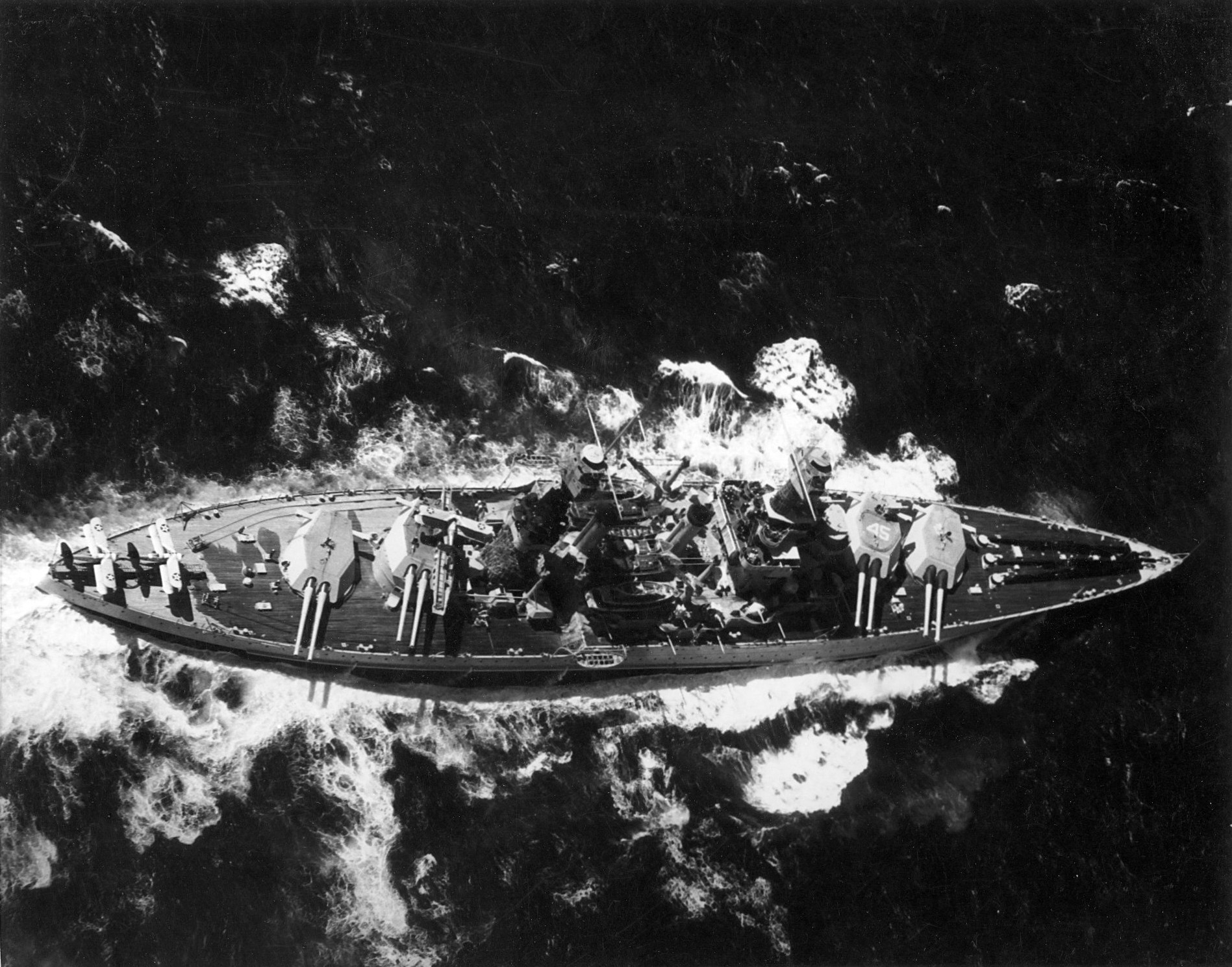 The U.S. Navy battleship USS Colorado (BB-45) steams through rough seas, circa 1932. Note the hull number painted atop one of the forward turrets and the Vought O3U Corsairs positioned on the catpults.